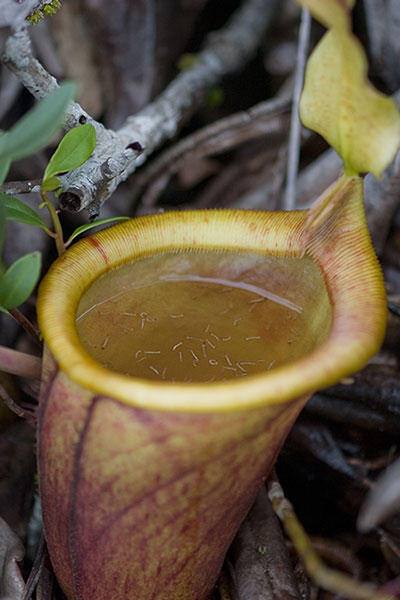 A lower pitcher of Nepenthes attenboroughii demonstrating a substantial infauna of mosquito larvae (Alastair Robinson, June 2007)